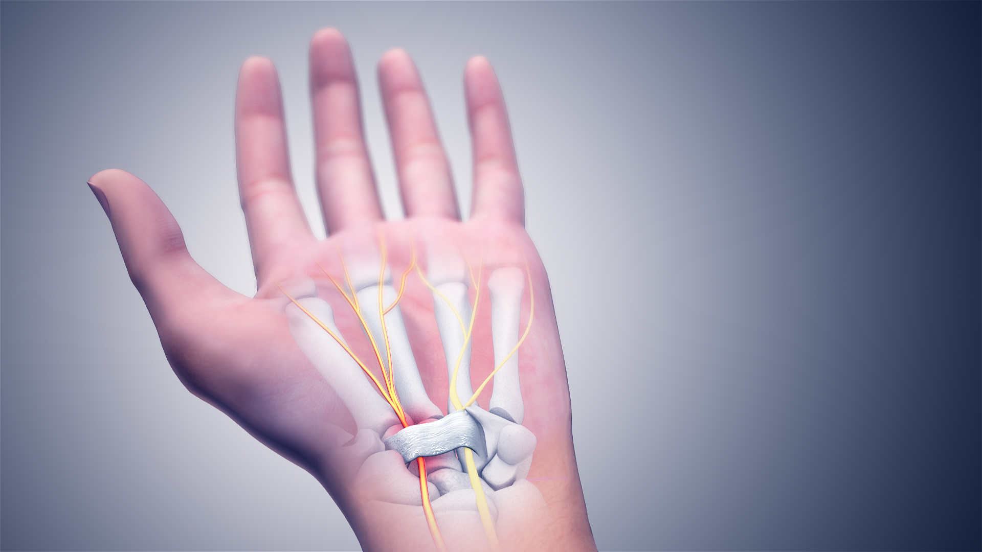 Tingling burning and pain through the course of median nerve particularly over the outer fingers and radiating up the arm caused by compression in case of carpal tunnel.